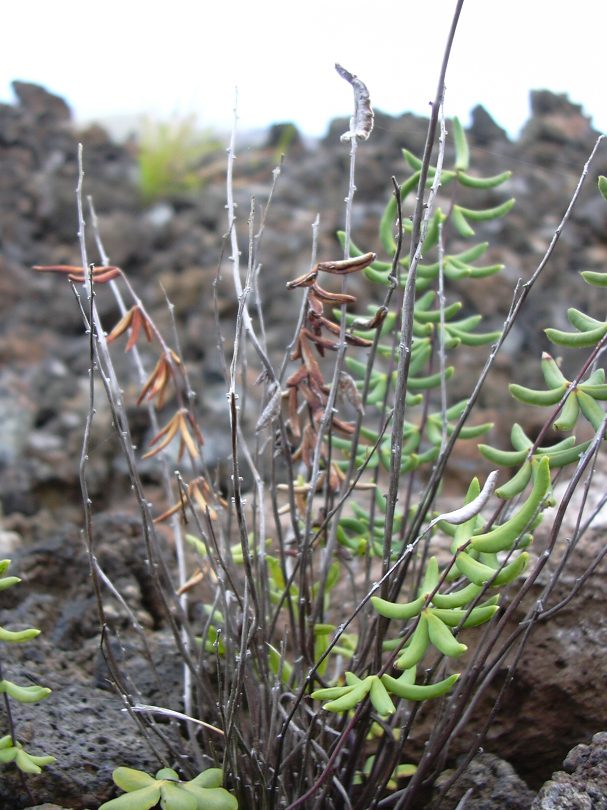 Pellaea ternifolia (habit). Location: Maui, Kanaio